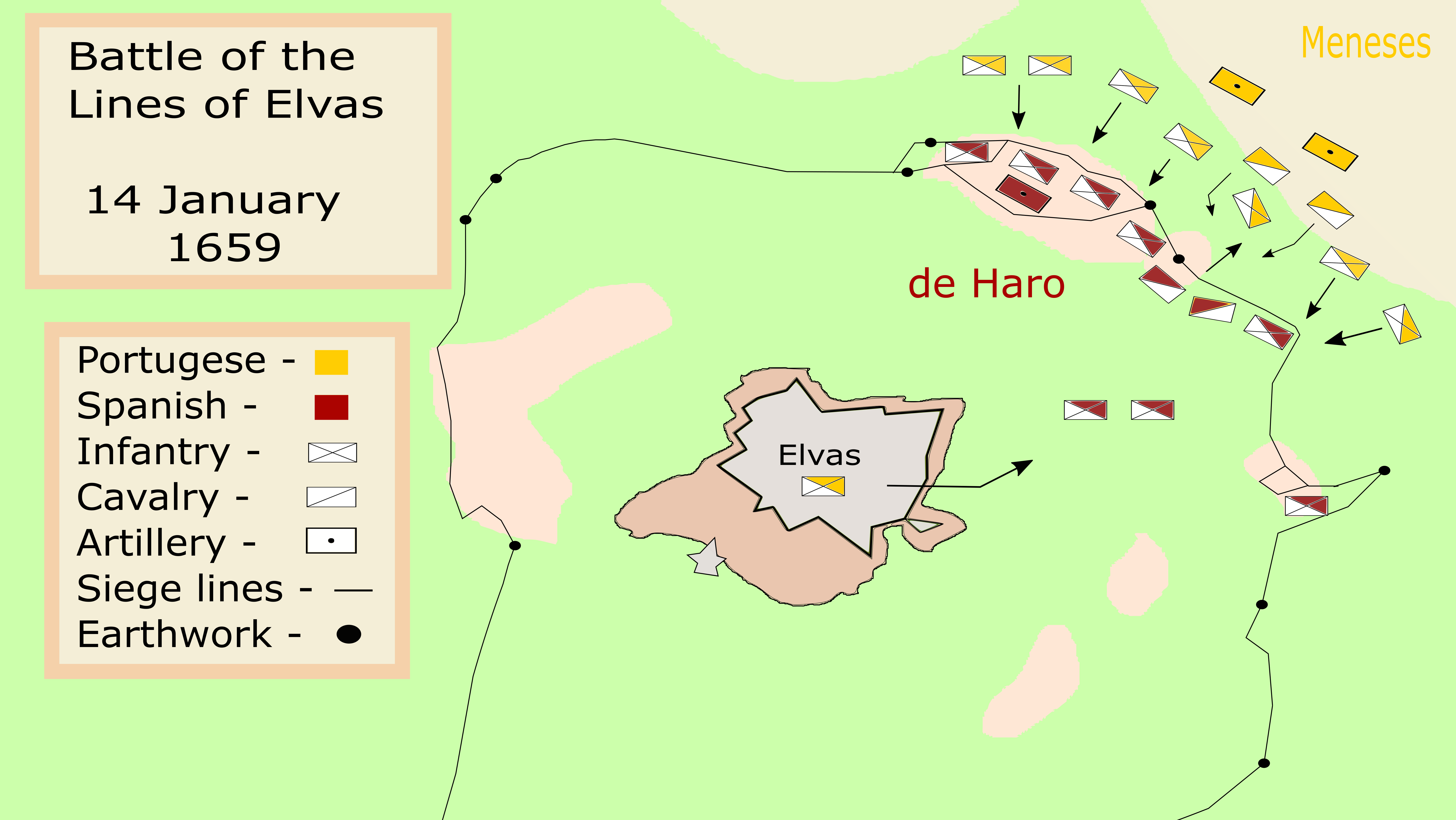 Battlefield map of the Battle of the Lines of Elvas. Produced with Inkscape using a contemporary map of the battlefield and information from texts and contemporary correspondence.